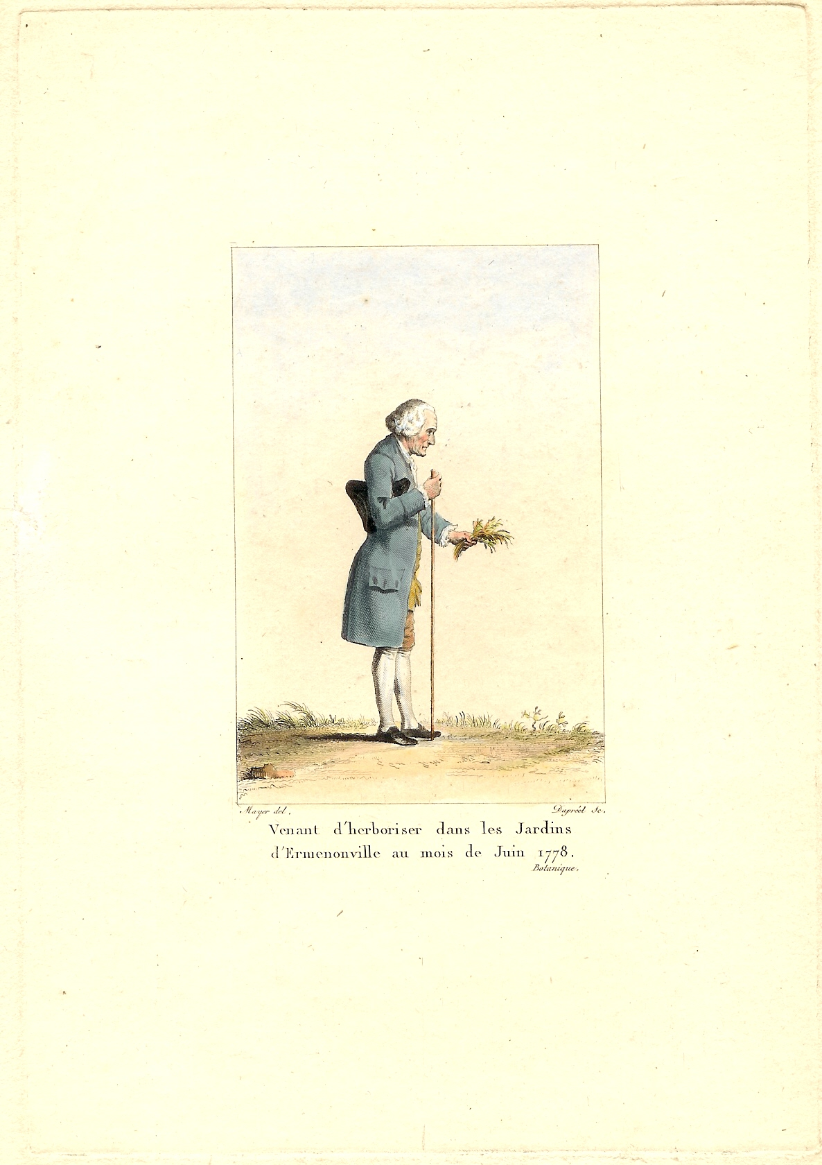 Jean Jacques Rousseau June, 1778 in Ermenonville